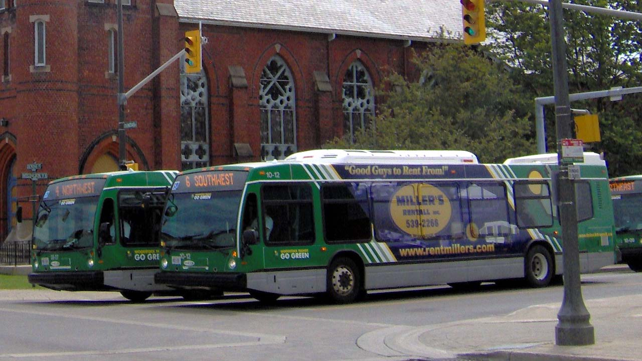 Woodstock Transit buses at the intersection of Dundas and Wellington, in Woodstock Ontario